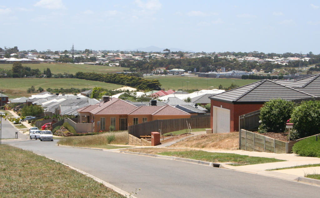 Overview of Grovedale and Highton looking north from Rossack Drive - Geelong, Victoria, Australia